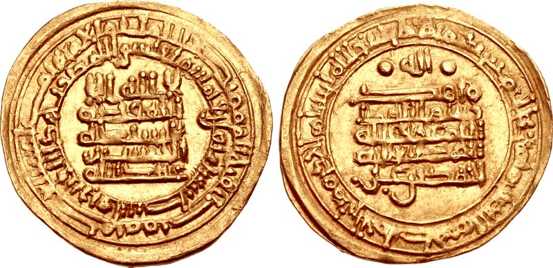 Original caption: ISLAMIC, Egypt & Syria (Pre-Fatimid). Ikhshidids. Abu'l-Fawaris Ahmad. AH 357-358 / AD 968-969. AV Dinar (23mm, 3.91 g, 10h). Filastin mint. Dated AH 358 (AD 968/9). Kalima and name of al-Hasan bin ‘Ubayd Allah; al-Quran Sura 30:4-5 in outer margin, mint and date formula in inner margin / Continuation of Kalima, name of Caliph, and Ahmad bin ‘Ali, “li–’llah”flanked by pellets above; Umayyad “Second Symbol” in outer margin. Bacharach 108; Balog, Tables -; SICA 6, 214; Lavoix 63; Album 682. EF.